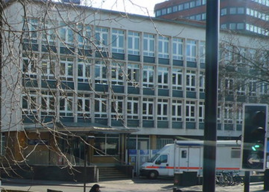 Brixton Police Station, 367 Brixton Rd, Brixton, London.